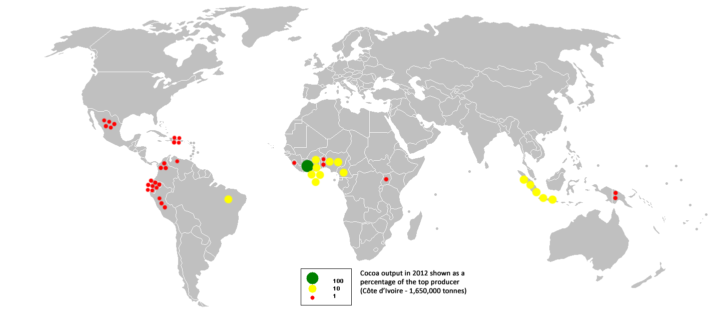 This bubble map shows the global distribution of cocoa bean output in 2012 as a percentage of the top producer (Côte d'Ivoire - 1,650,000 tonnes). This map is consistent with incomplete set of data too as long as the top producer is known. It resolves the accessibility issues faced by colour-coded maps that may not be properly rendered in old computer screens. Data was extracted on 25th February 2015 from FAO.